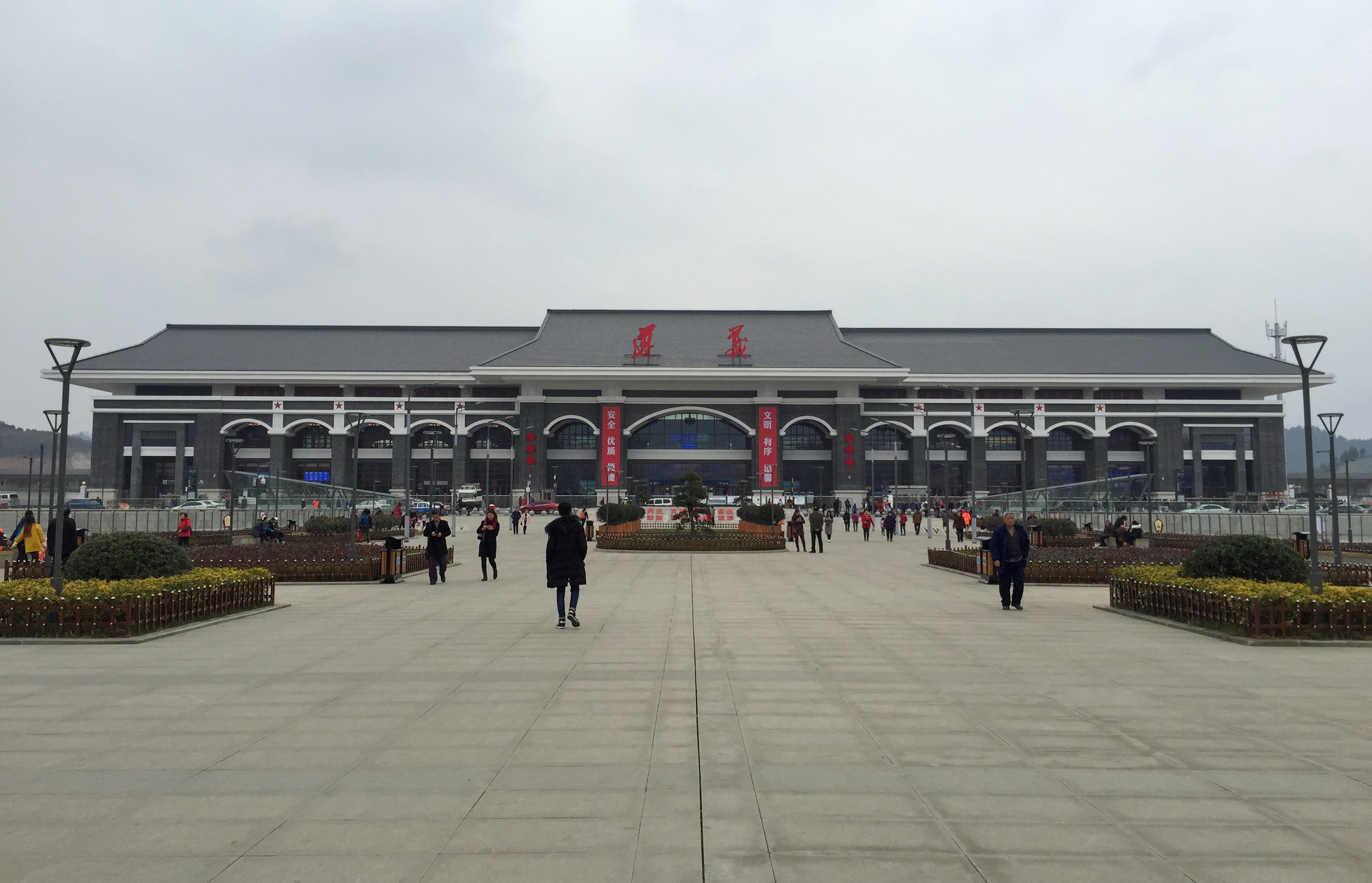 Taken from the station square.